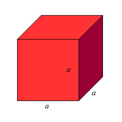 Kocka